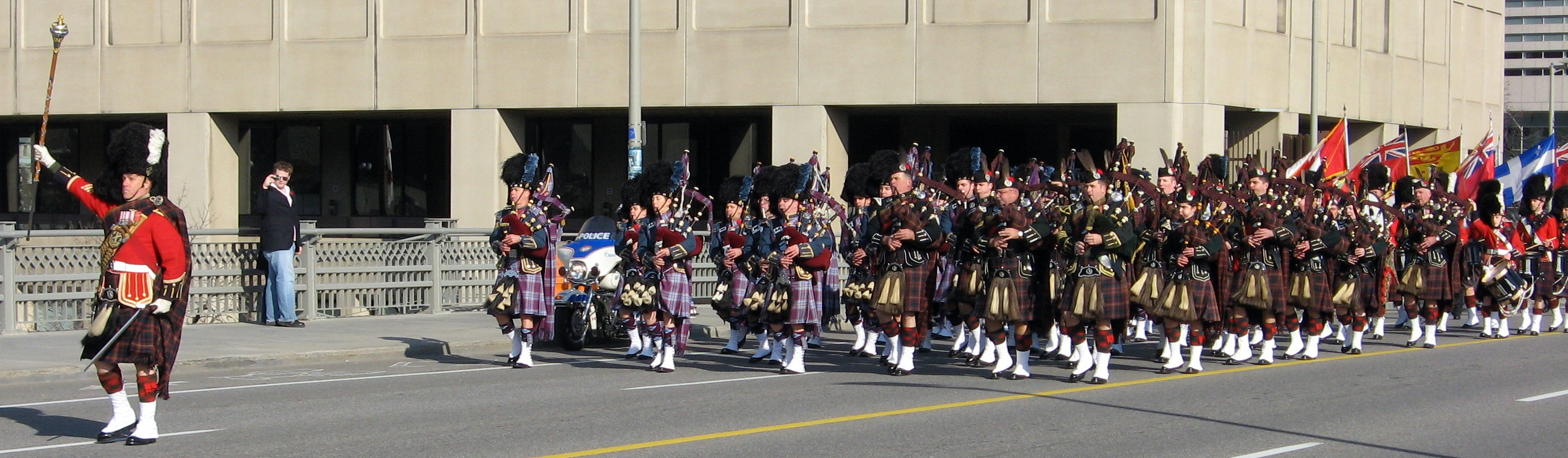 Remembrance Day parade in Ottawa, Canada, in front of NDHQ.